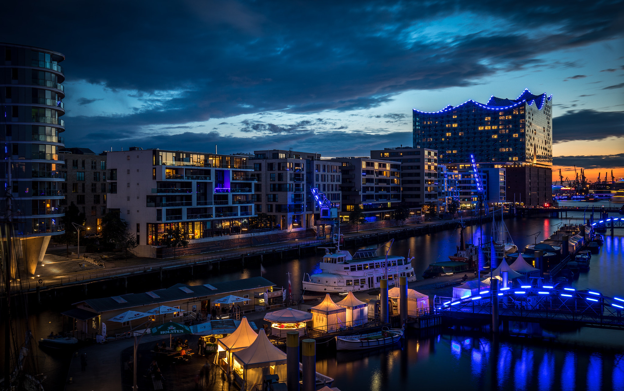 500px provided description: A Capture of the Cruise Days in Hamburg - Germany [#yellow ,#water ,#travel ,#blue ,#harbour ,#cityscape ,#orange ,#500px ,#germany ,#sundown ,#colorful ,#perspective ,#no people ,#blau ,#capture ,#photooftheday ,#bestoftheday ,#picoftheday ,#Architecture ,#Photography ,#City ,#Deutschland ,#Hamburg ,#Elbphilharmonie ,#Abendrot ,#Weber ,#HH ,#Wolfgang ,#Lightshow ,#Wolfgang Weber ,#Cruise Days ,#bestpicoftheday ,#500pxrtg ,#phowoto]